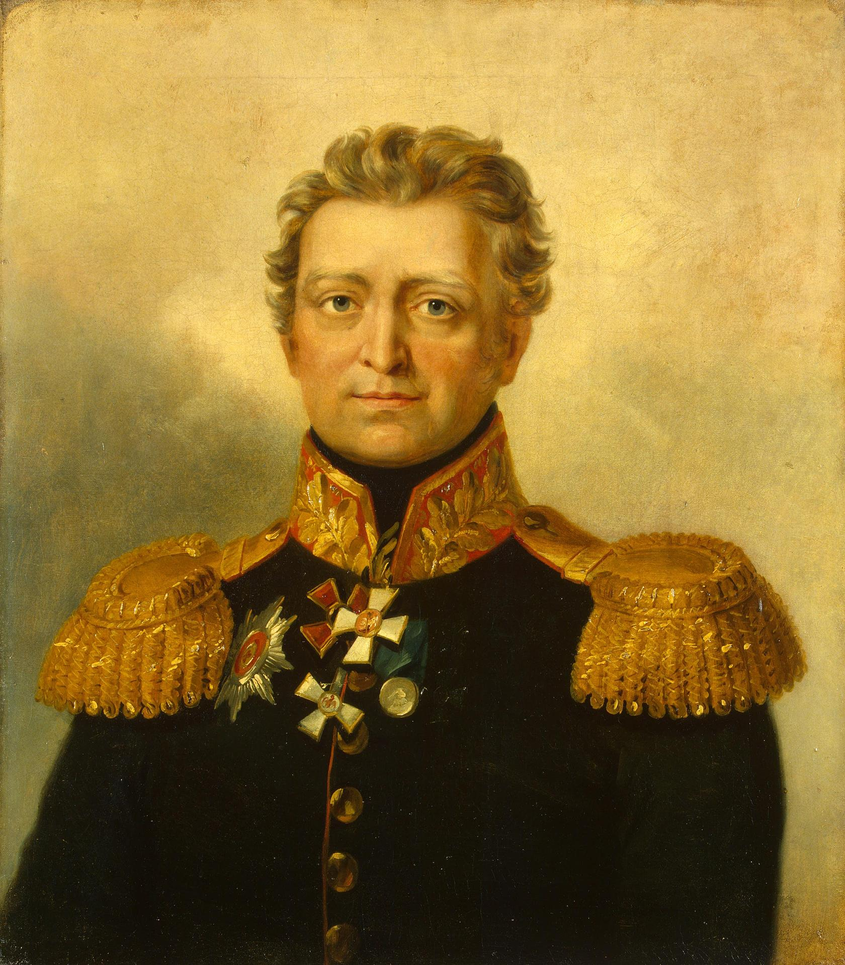 Garpe, Vasily Ivanovich (16.09.1762 – 19.02.1814) russian major general.